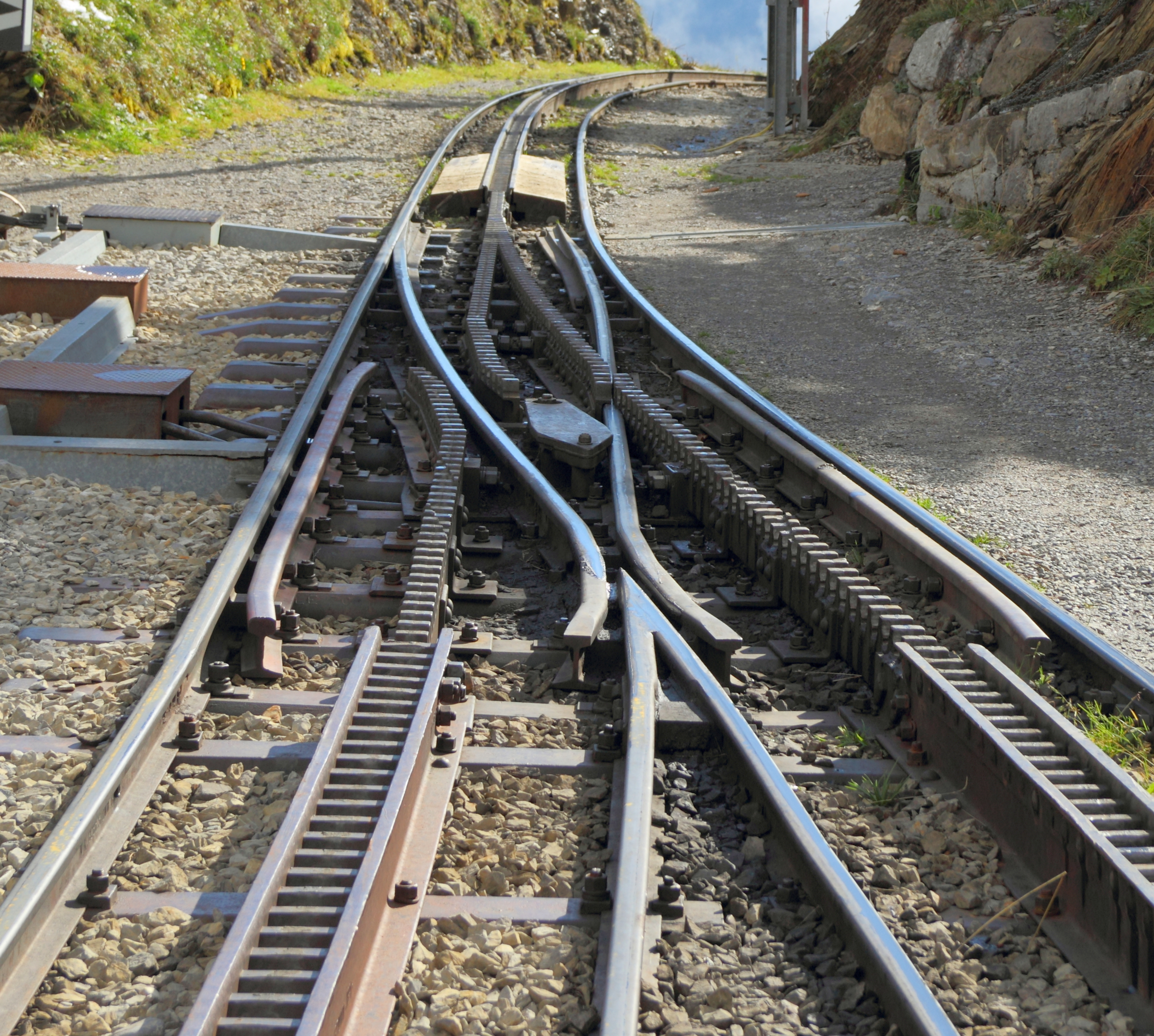 A railroad switch (railway turnout) on the Schynige Platte-Bahn (SPB, Schynige Platte Railway) rack railway in Switzerland. Note the mechanism to allow the locomotive's driving pinion to engage with the rack as it passes over the switch. The image was captured immediately southwest of the station at Schynige Platte.